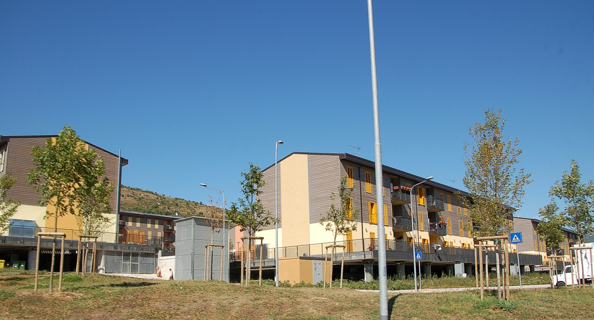 L'Aquila 2010